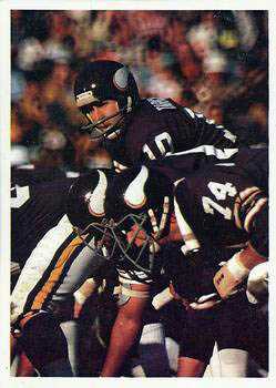 Fran Tarkenton (#10), Minnesota Vikings' quarterback.